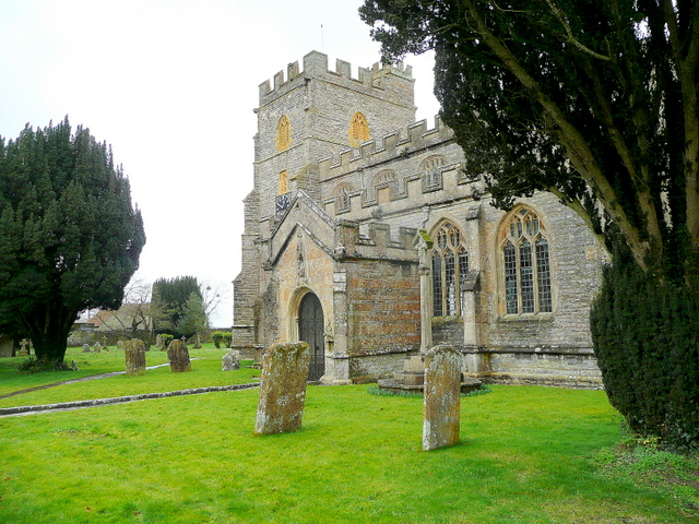 St Andrew's Church, High Ham, Somerset